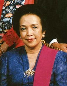 Habibie, former President of Indonesia, with his wife, Ainun